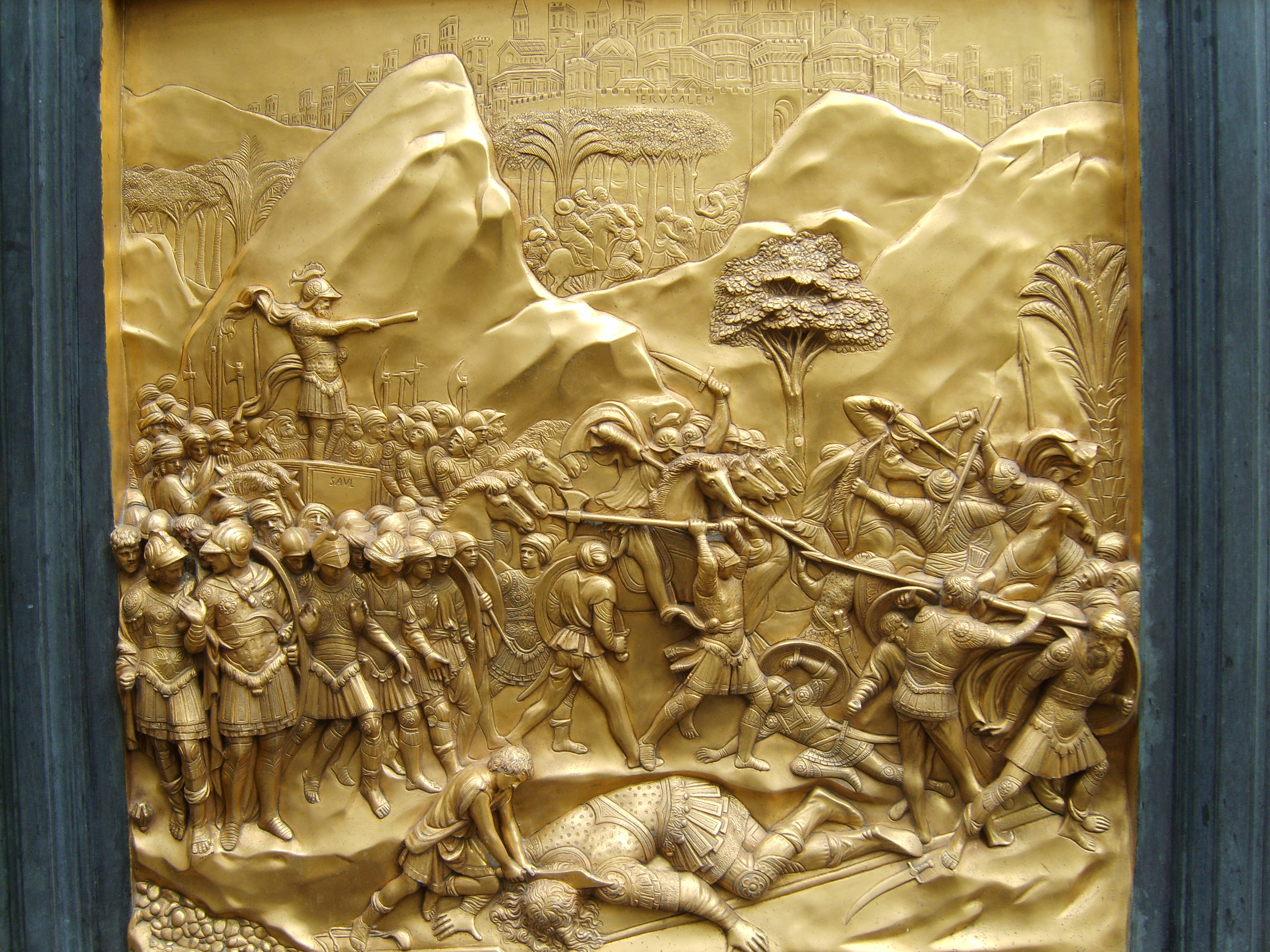 The Gates of Paradise-David and Goliath